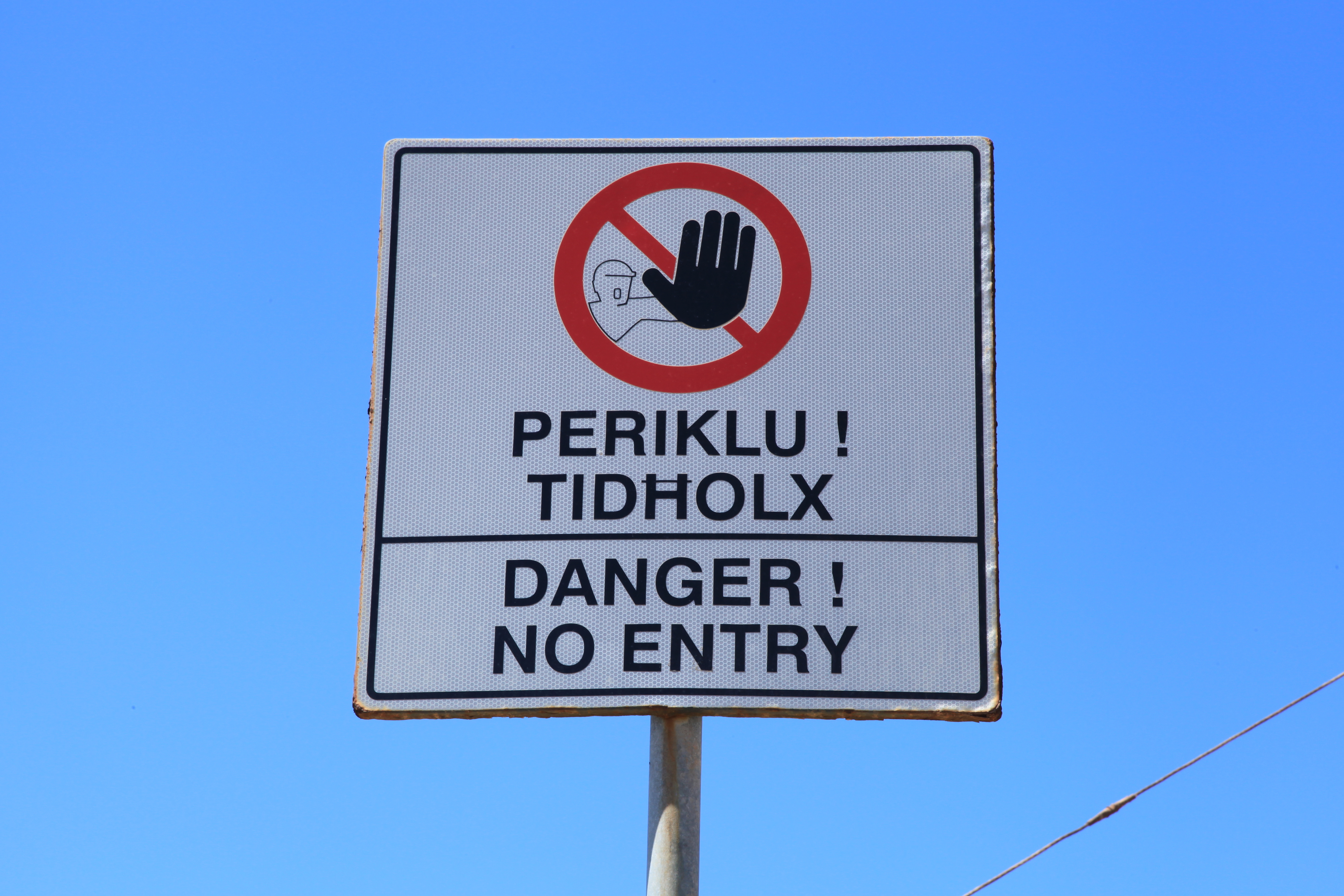 The former pig farm on Comino in Għajnsielem, Malta